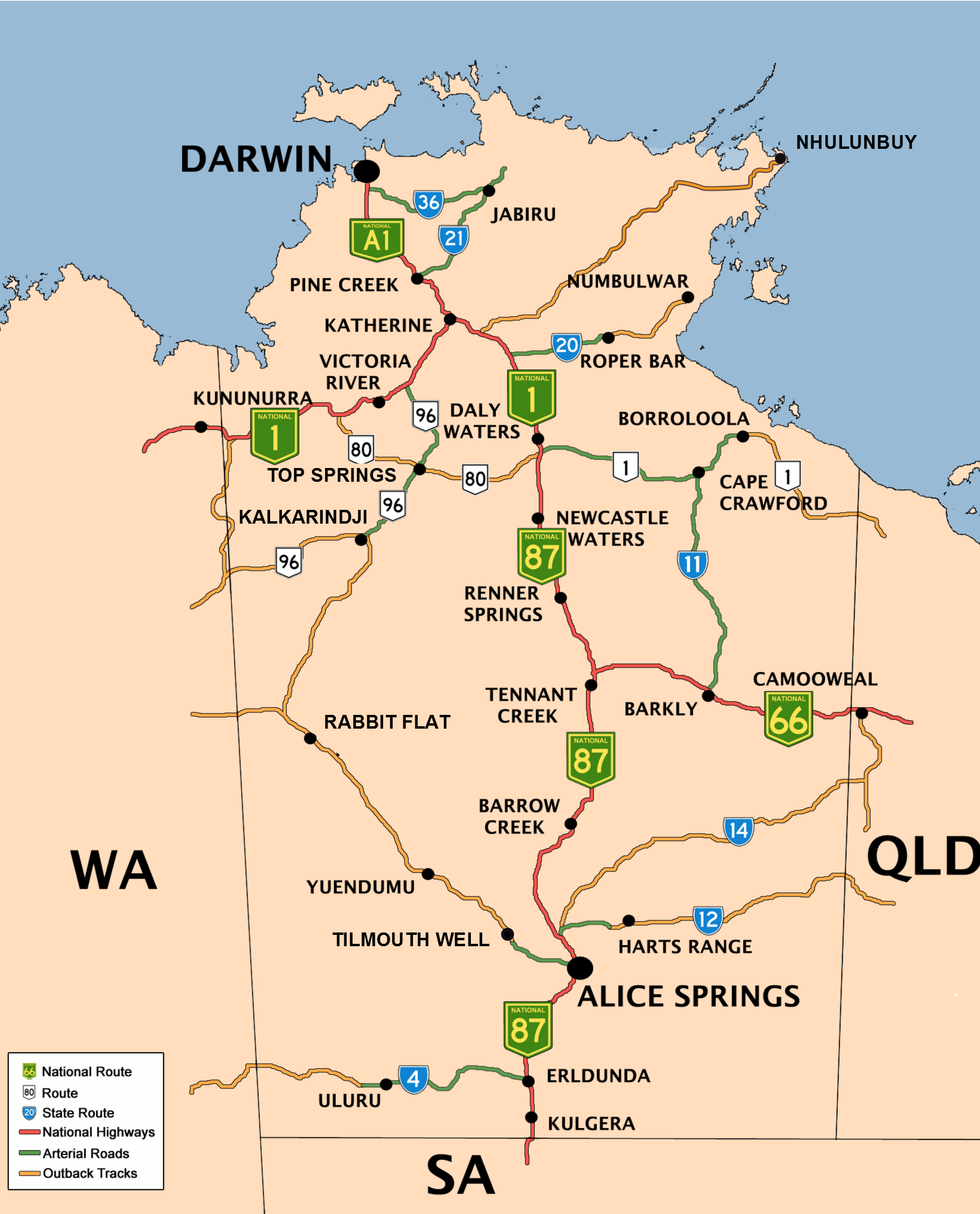 Map of major roads in the Northern Territory. Updated map of NT roads, with changes to spelling of Top Springs, Kalkarindji, addition of Tilmouth Well, extension of road to and addition of Nhulunbuy. Previous versions by Bidgee,Fikri